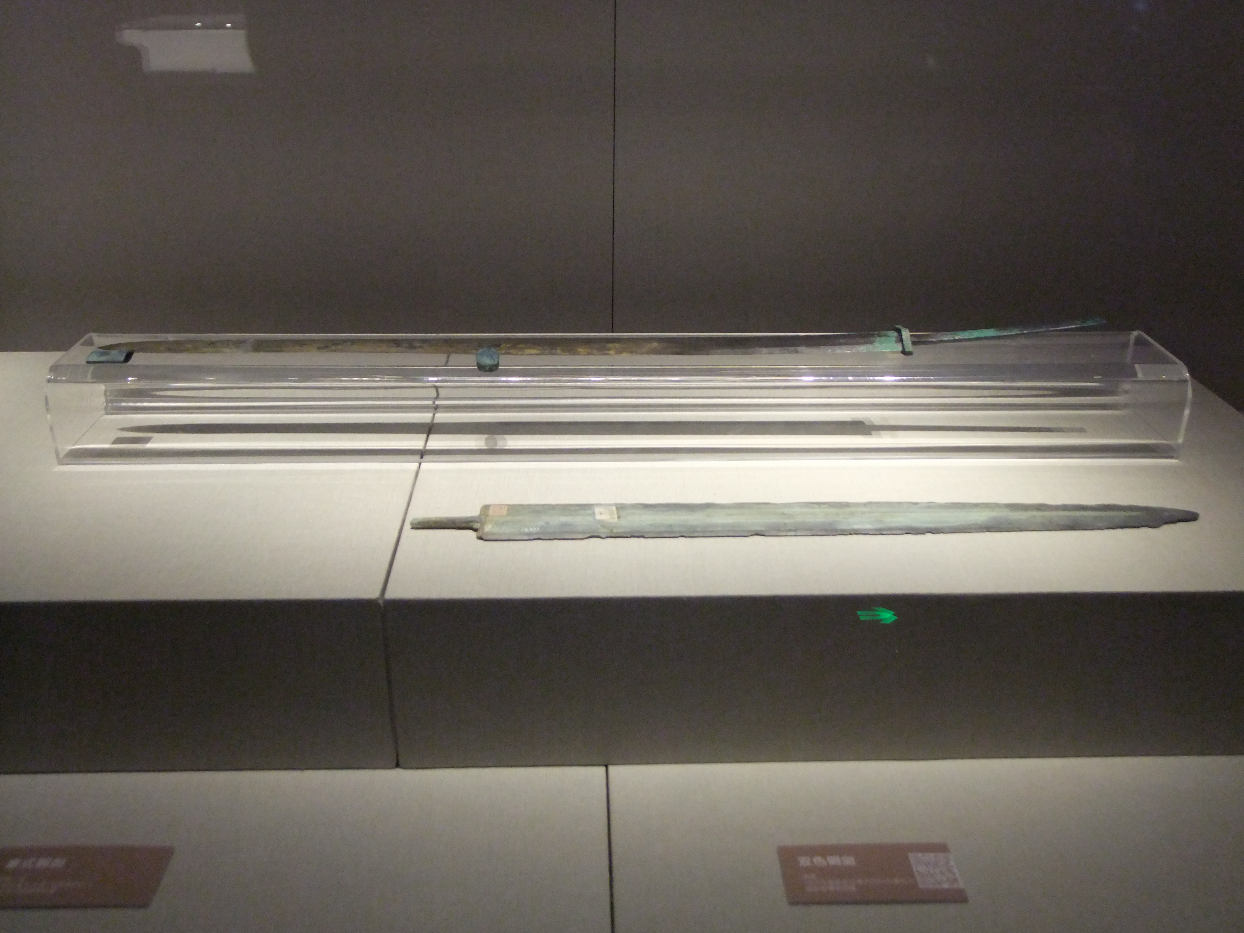 Two-color bronze sword, Warring States period (457-221 B.C.), excavated in Changsha, Hunan in 1952. It is preserved in Hunan Museum. Photo taken in February 2018 in Hunan Museum Exhibition, Changsha, Hunan, China. 中文（中国大陆）: 双色铜剑，战国时期，1952年出土于湖南省长沙市。现存于湖南省博物馆。2018年2月拍摄于湖南省博物馆的《春秋战国文物大联展》。